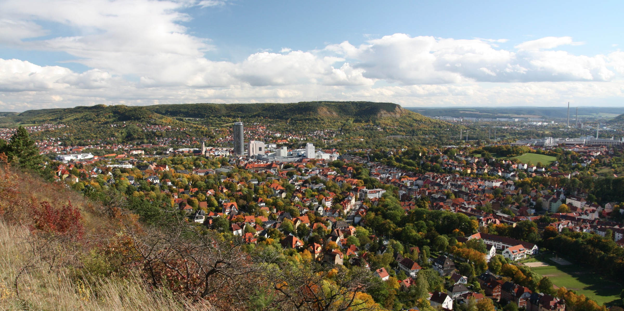 view over Jena (Germany) from a hiking trail in the hills north-west of the city center.